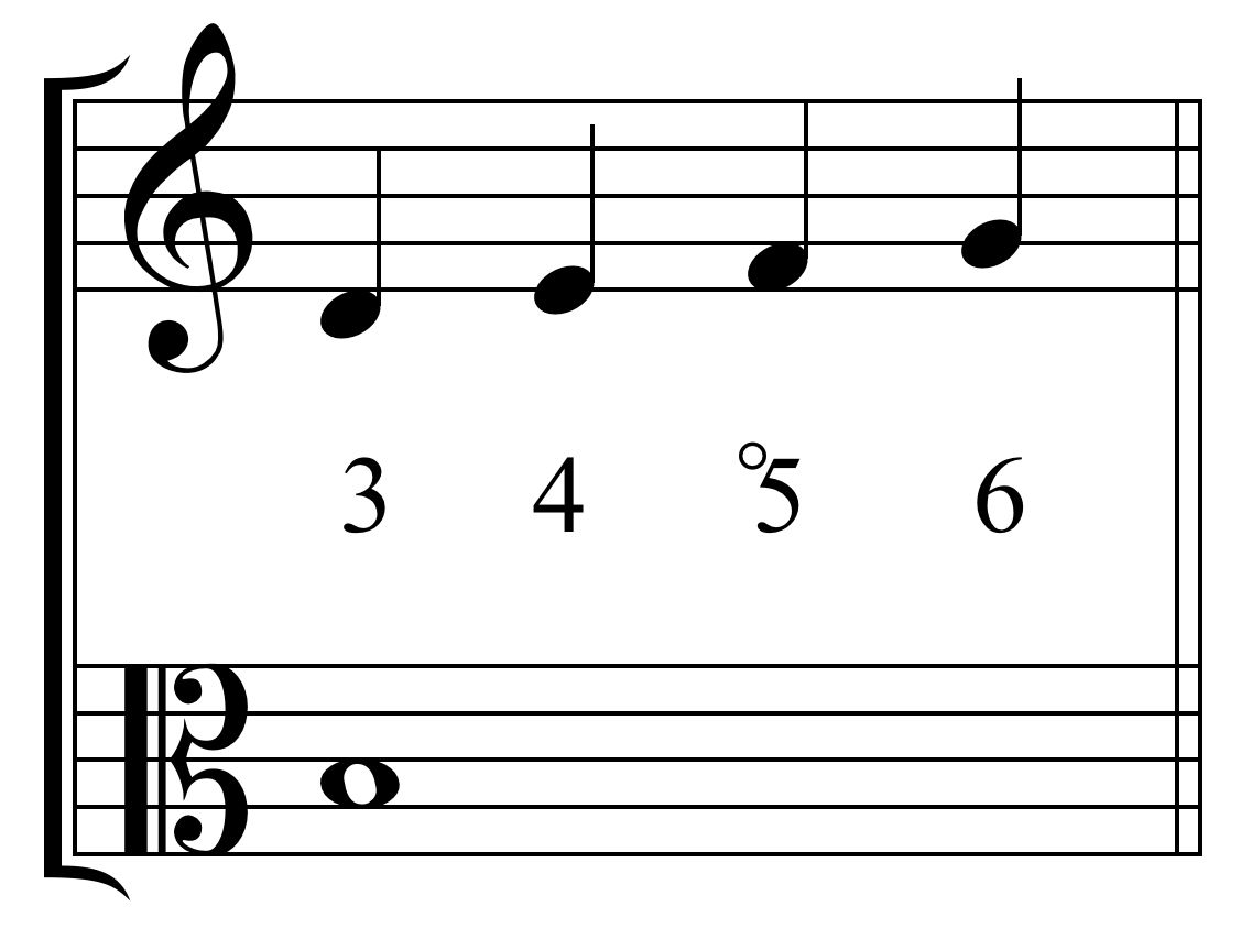 This is an example of a double passing tone in which the two middle notes are a dissonant interval from the cantus firmus. A 4th and a diminished 5th.